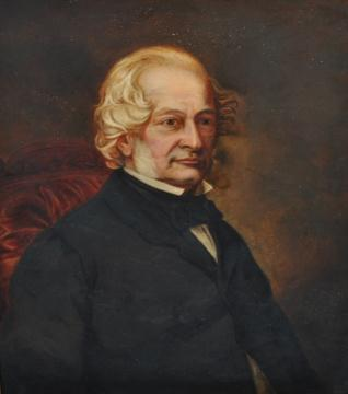 Portrait of Isaac Reckitt (1792–1862)